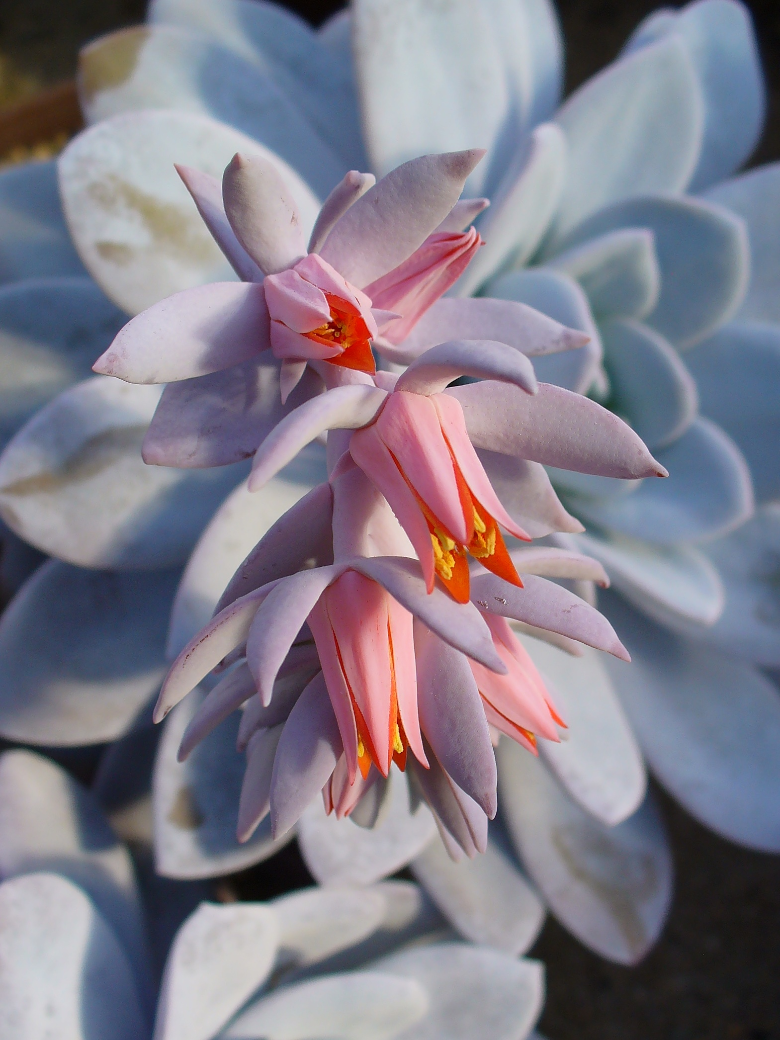 Flowers; Botanic Garden University of Heidelberg, Heidelberg, Germany.